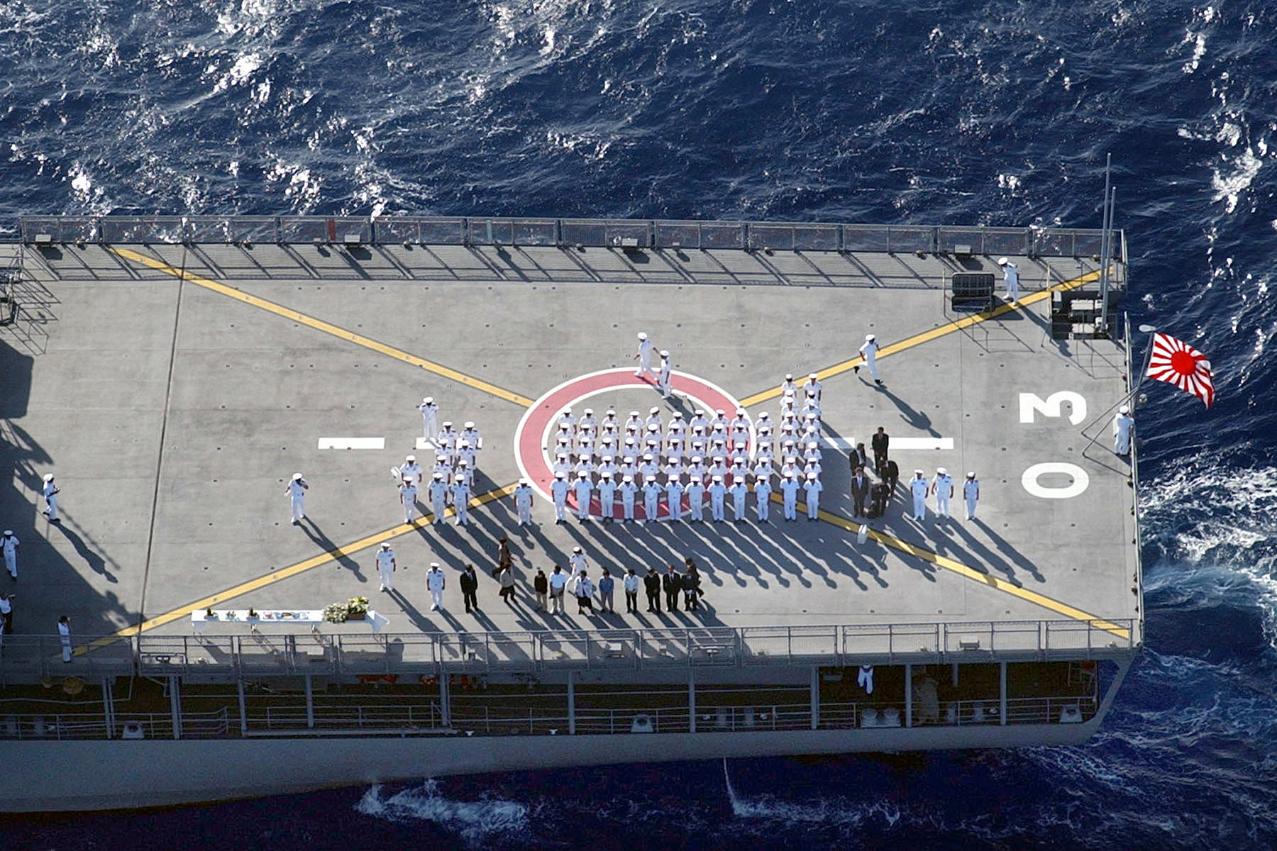 Nov. 25, 2001 During the final ceremony of the Ehime Maru aboard JDS Chihaya, representatives from three of the crewmembers' families threw flowers into the water to honor their loved ones.